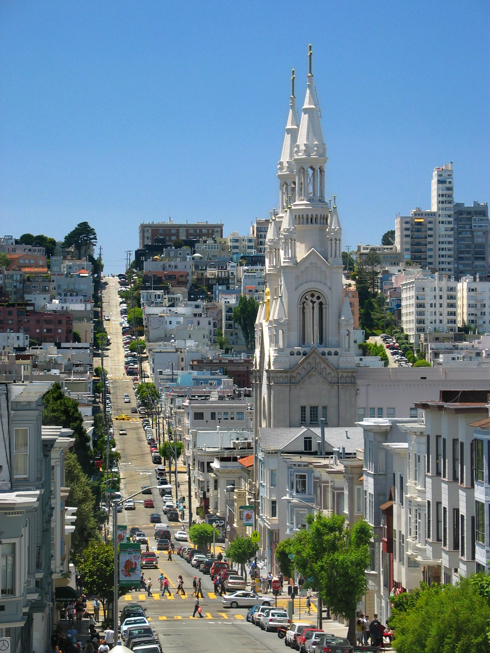 Looking down Filbert Street in North Beach, San Francisco. Saints Peter and Paul Catholic Church across Washington square towers the neighbourhood.